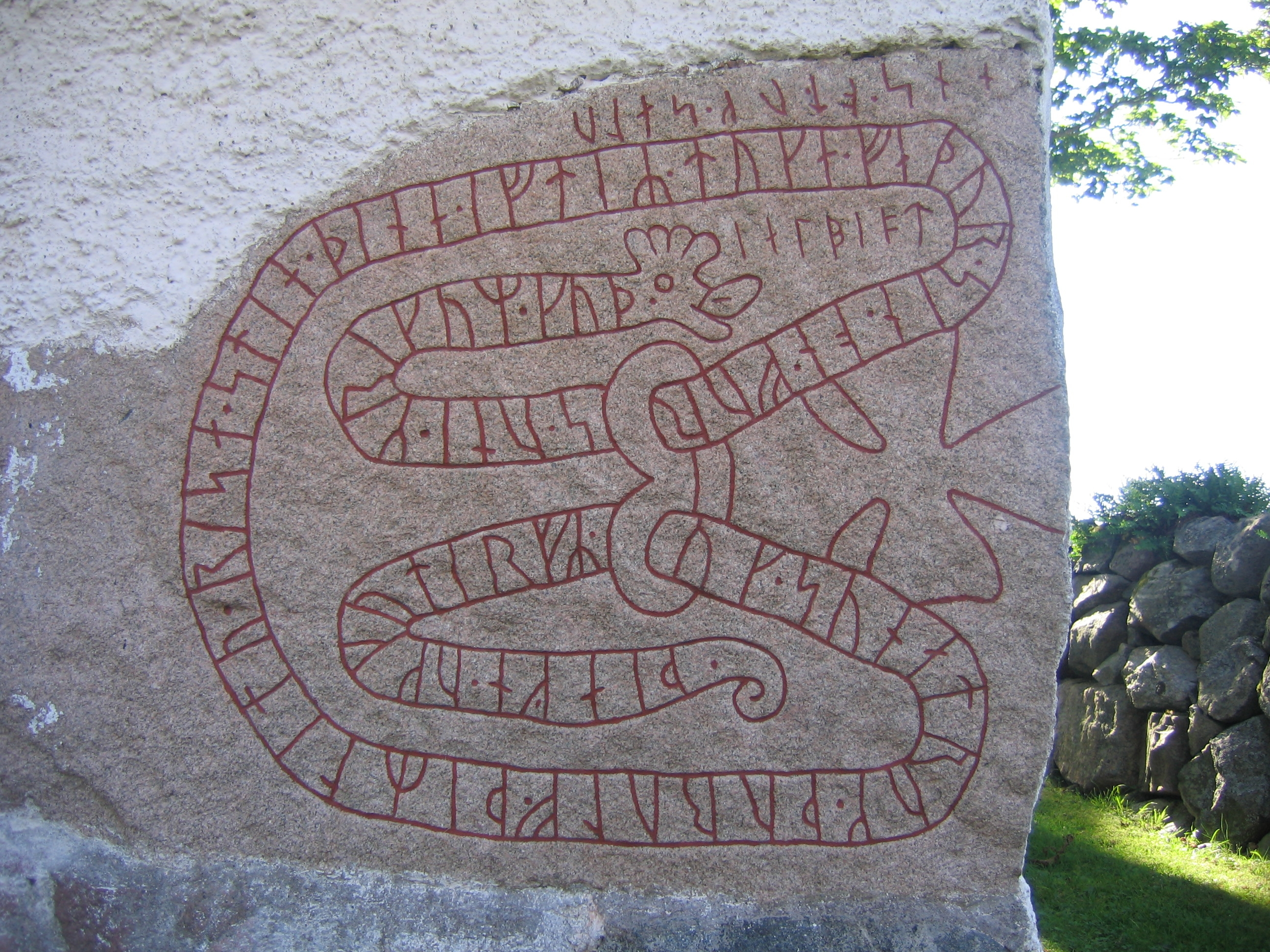 Runestone U 201 which is inserted into the outer wall of Angarn church in Uppland, Sweden.